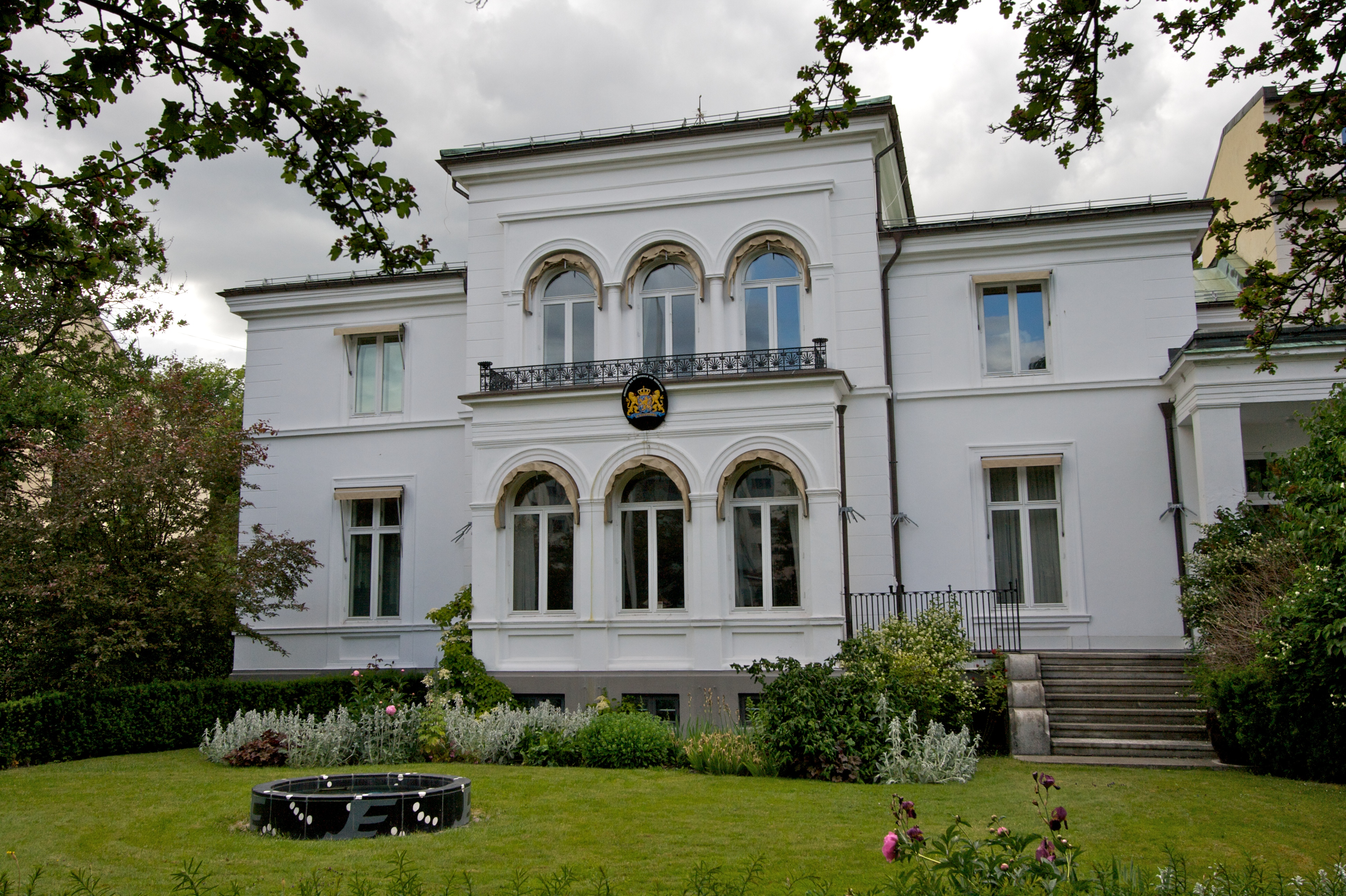 Dutch Embassy, Oslo, Norway.